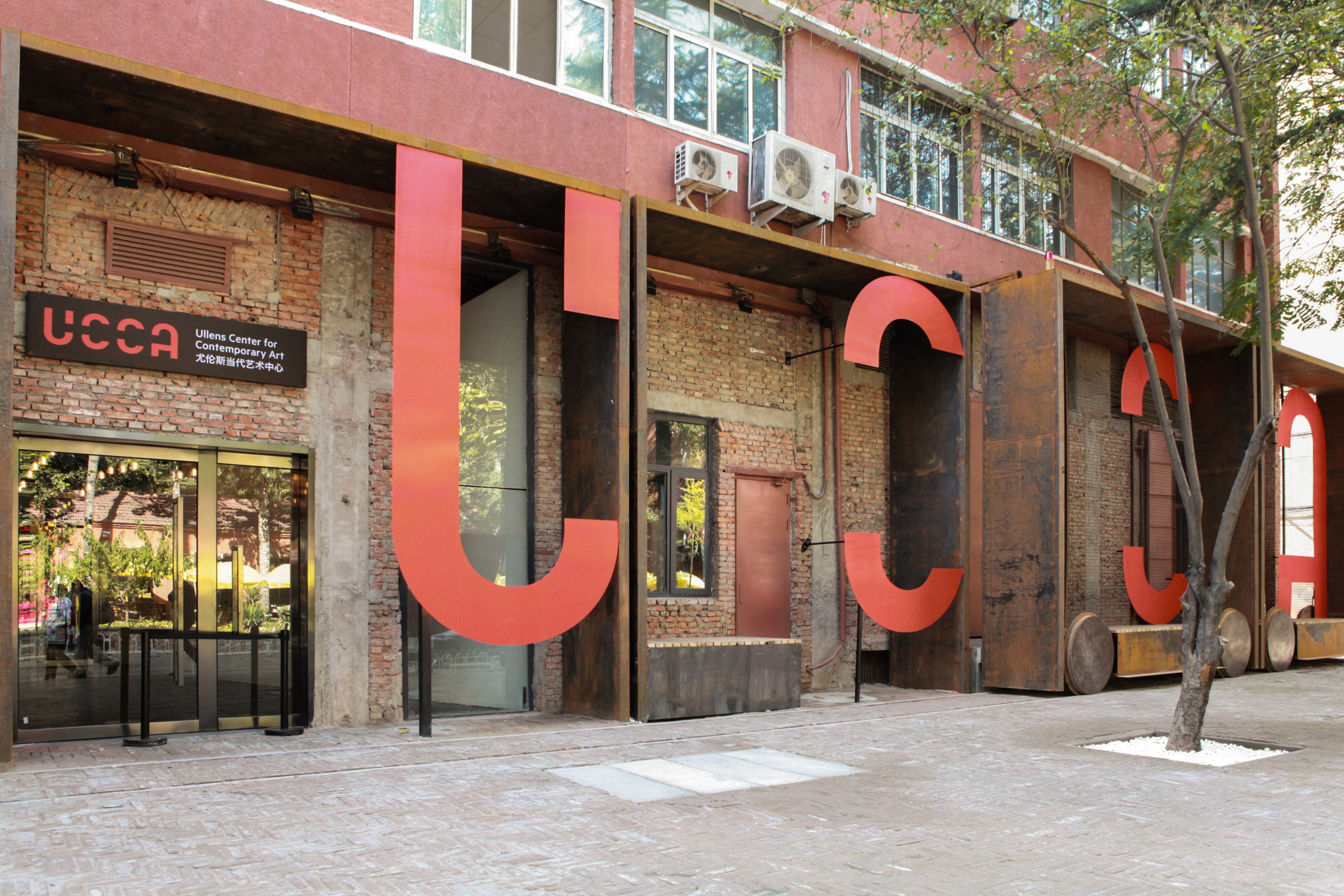 Ullens Center for Contemporary Art (UCCA) facade unveiled in October 2012 as part of the fifth year anniversary celebrations